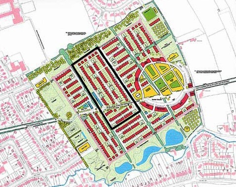 Featured images for Douglas Jarvie Clelland Wikipedia article